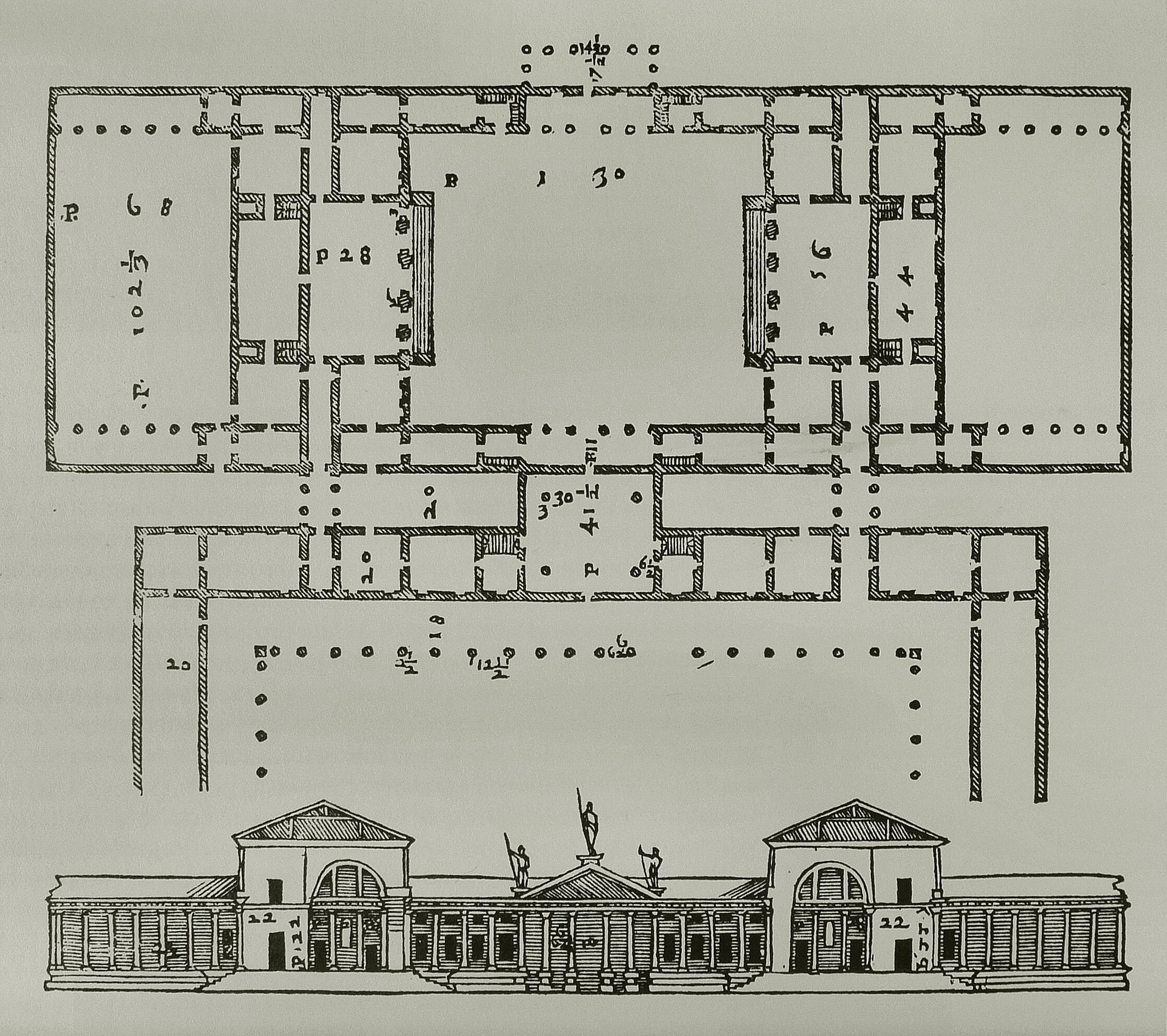 Villa Thiene in Quinto Vicentino, Province of Vicenza. Drawing of the project (partly realised) by Andrea Palladio, from I Quattro Libri dell'Architettura, 1570